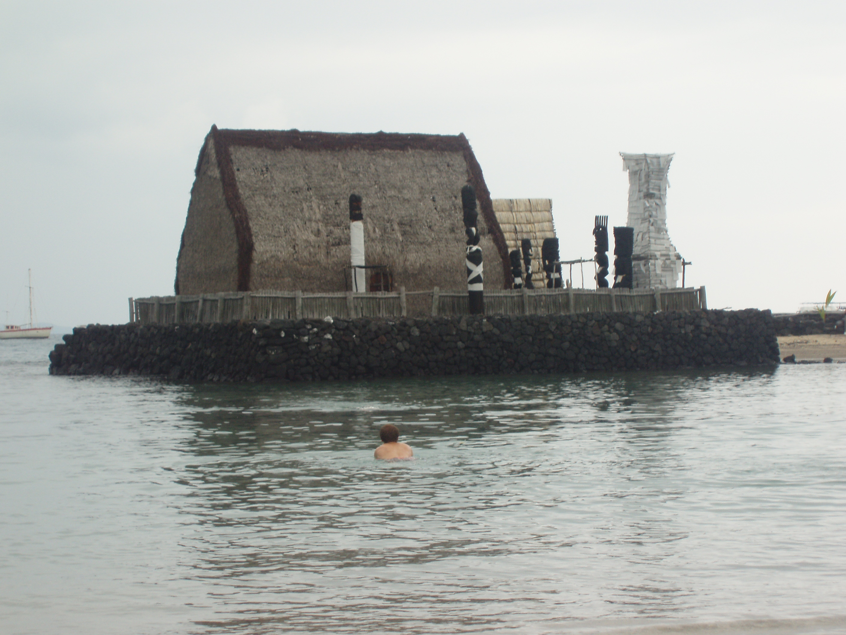 Ahuʻena Heiau — heiau on sacred ground at Kailua-Kona, Big Island of Hawaiʻi.